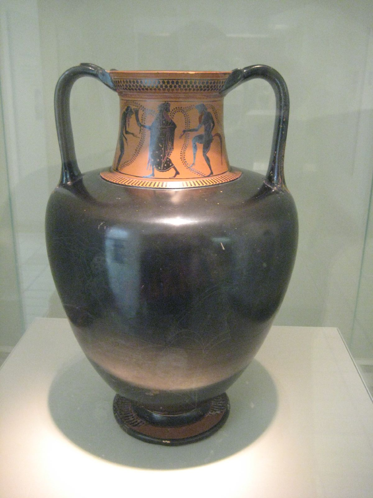 Neck side A: Dionysos with drinking horn and ivy between satyrs dancing. Neck side B: warrior in frontal chariot between youths. Made in Athens about 520 - 500 BC. Attributed to the painter Psiax, and signed on the rim by Andokides. British Museum, London.